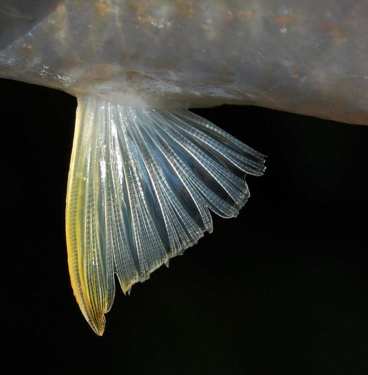 Barbonymus gonionotus, pelvic fin. From Cisadane River, Situgede, Bogor, West Java, Indonesia errata: Misidentified, it should be Mystacoleucus marginatus